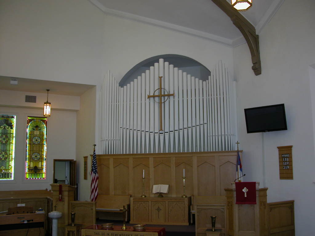 First Presbyterian Church of Hartford City, Indiana sanctuary